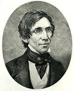 John Torrey, from Hunt Institute for Botanical Documentation